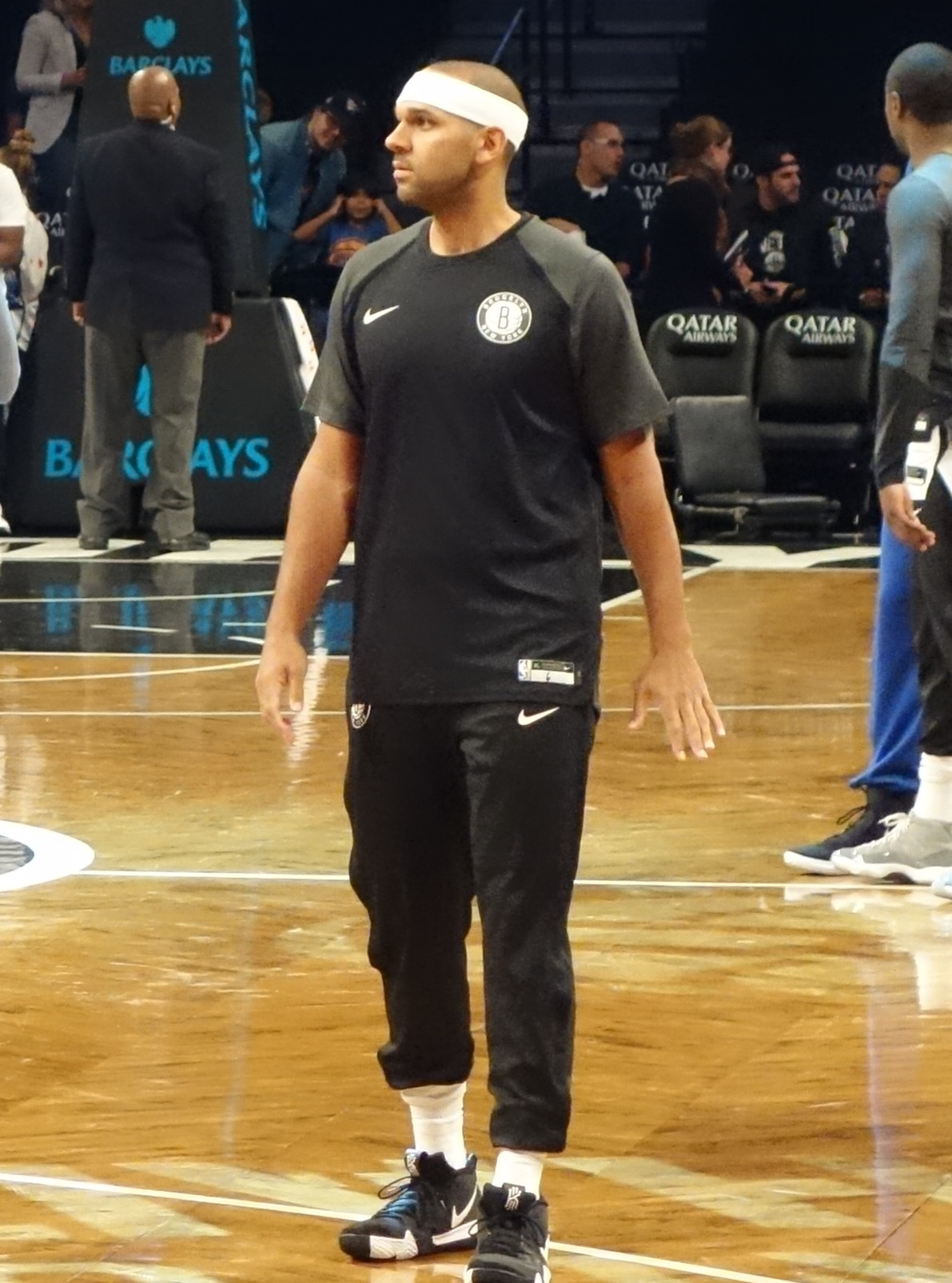 Veteran Jared Dudley, now of the Brooklyn Nets, warming up prior to the NBA Preseason game between the Brooklyn Nets and the New York Knicks at the Barclays Center on October 3, 2018.